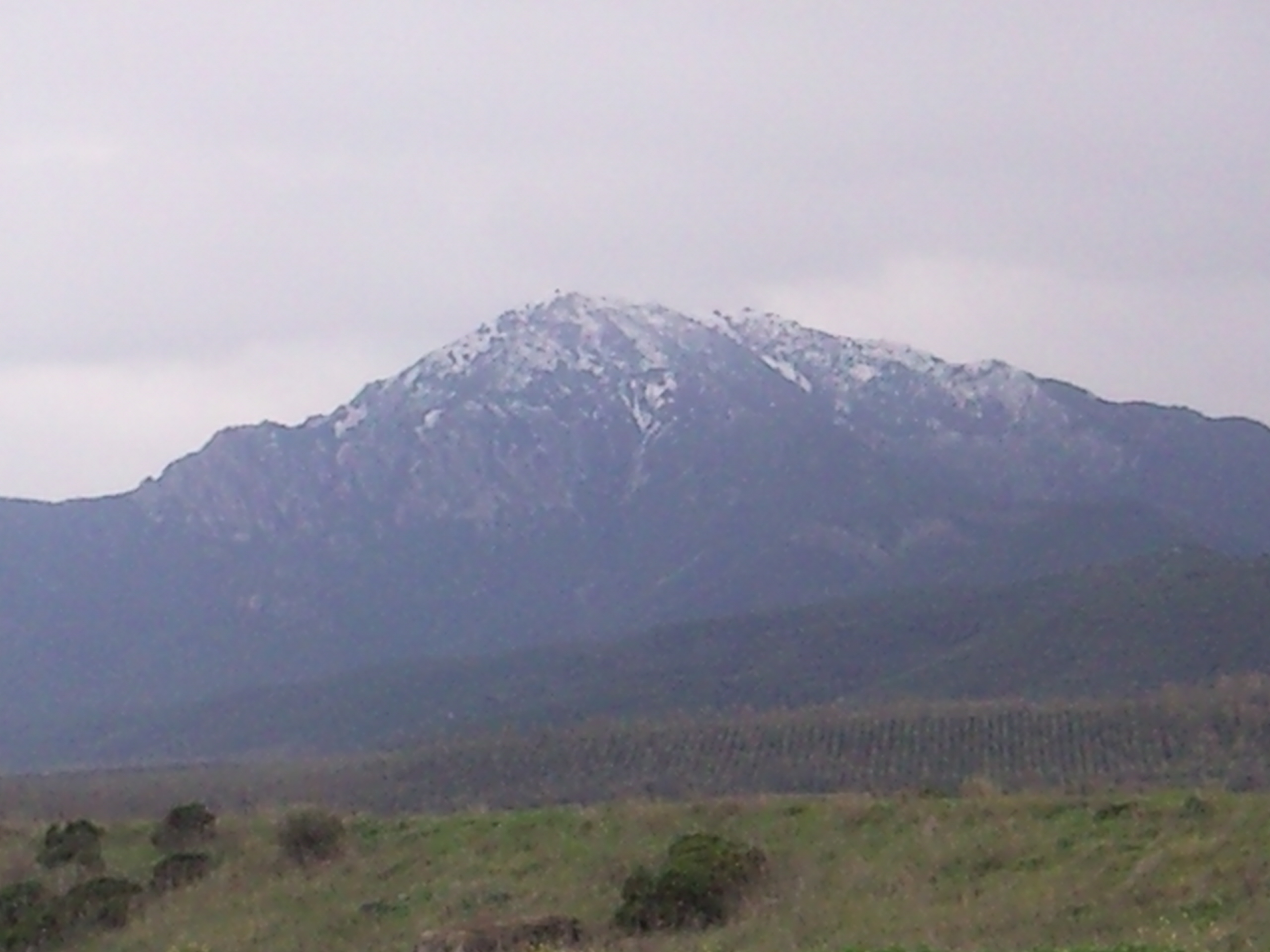 Snow on Monte Arcosu's Peak in winter